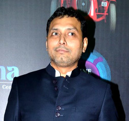 Director Neeraj Pandey at his film Baby's premiere